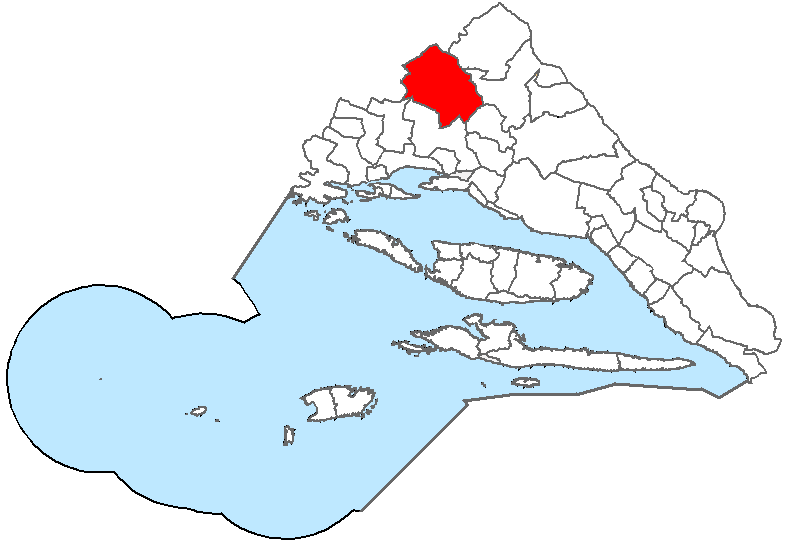 Position of municipality inside Split-Dalmatia County